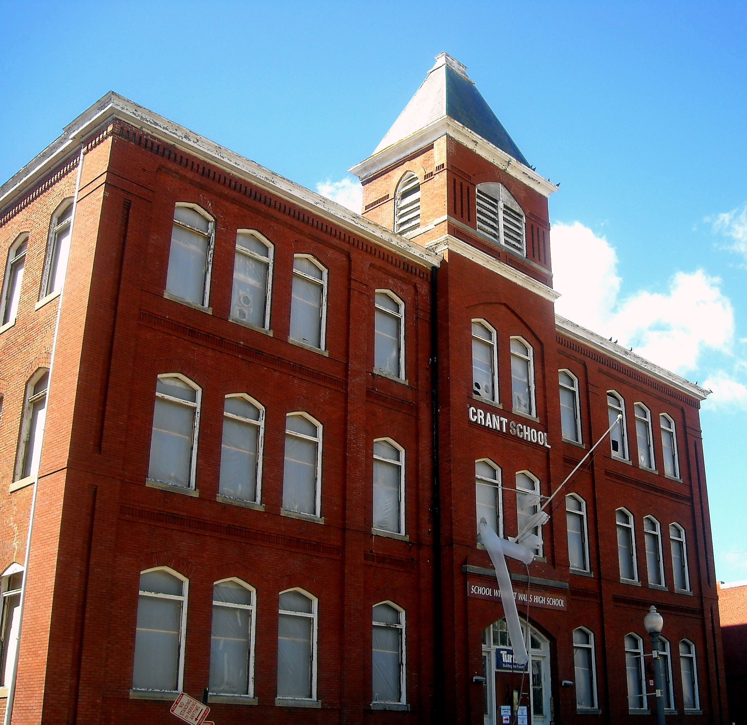 The Ulysses S. Grant School (also known as Analostan School or School Without Walls High School) located at 2130 G Street, NW in the Foggy Bottom neighborhood of Washington, D.C. The Late Victorian building was designed by John B. Brady in 1882 and is listed on the National Register of Historic Places.